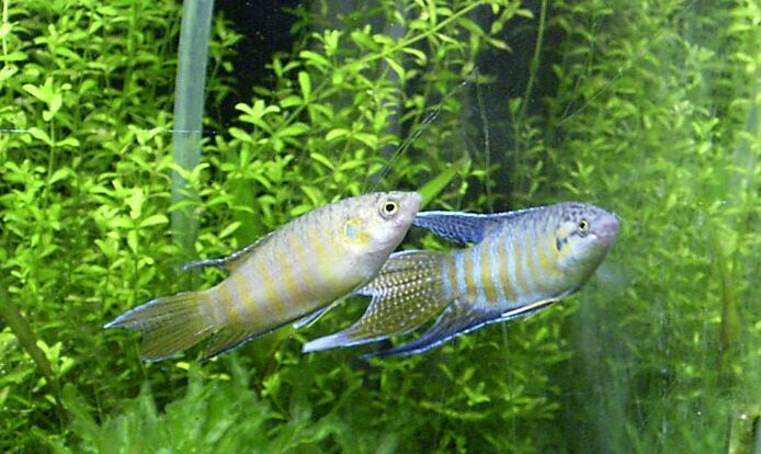 Description: There is a couple of paradise fish (Macropodus opercularis). On the left is female, and the right one is male. Source: This picture is taken by myself from my own aquarium tank. Date: 2005/07/16